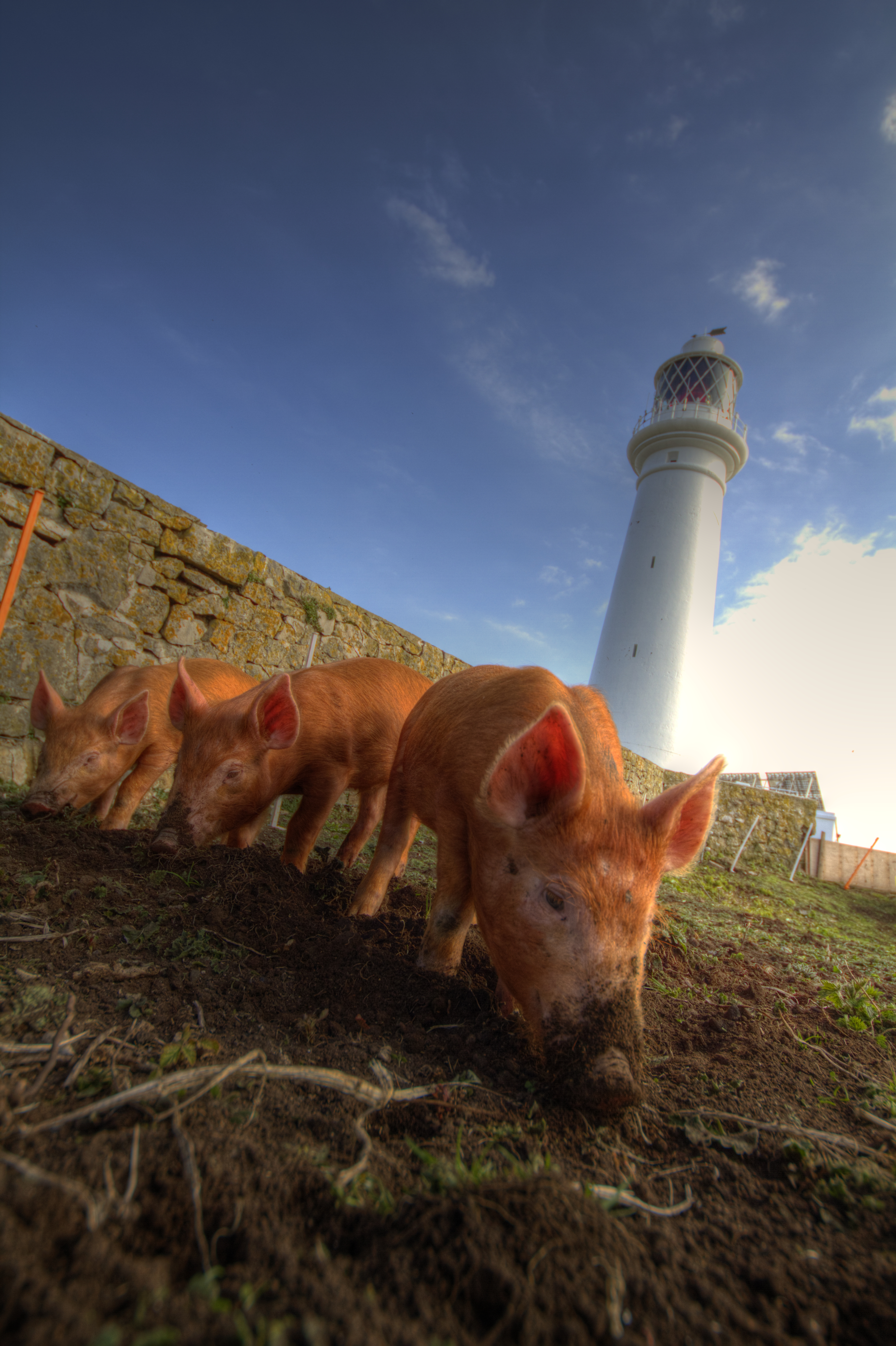 Three little Tamworth pigs on Flat Holm Island, Wales. – "Flat Holm Islands newest arrivals. Our three little Tamworth pigs were surprisingly calm on the boat from Cardiff last night. The sun was setting fast and to make matters worse a thick cloud bank stood between ourselves and the Island. We landed in thick fog and by the time these little ones were on the tractor trailer it was dark and they were asleep. The fog on the island was so thick that we could barely see the light on the lighthouse from the point of view of this picture. We gave the 3 little fellas a feed and some water and got them tucked into their straw beds. In the morning they awoke to the sound of gulls. They were pretty nervous at first but within two hours they were digging, eating, drinking and sleeping, not to mention waggling their curly little tails. Brilliant!"